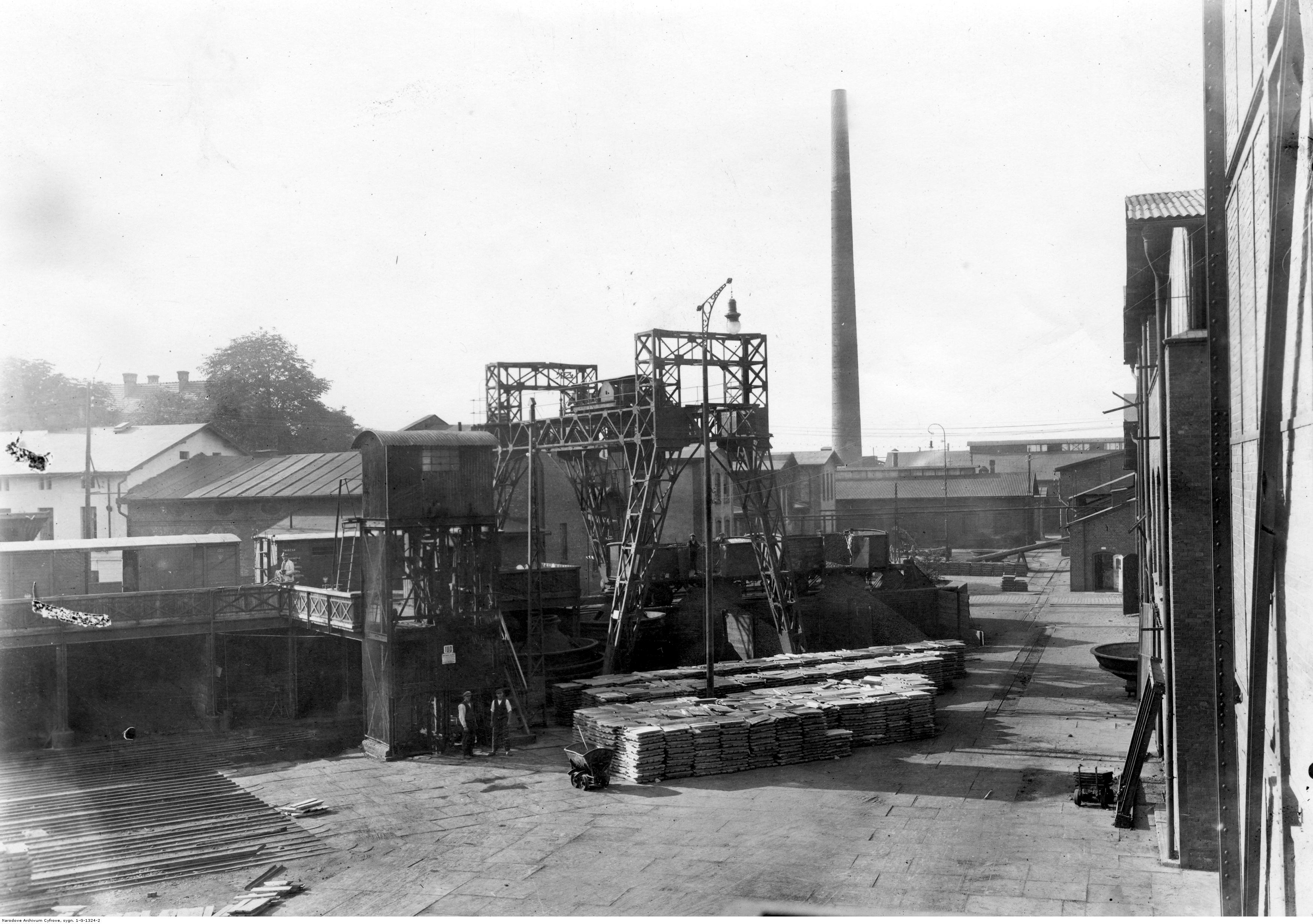 Buildings of Fryderyk Smelting Works in Strzybnica (now part of Tarnowskie Góry, Poland).